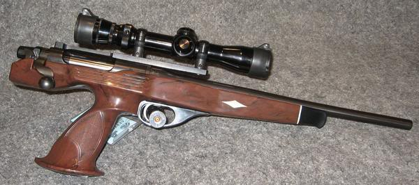 Remington XP-100 pistol in .223 Rem caliber, a gun used in metallic silhouette shooting.